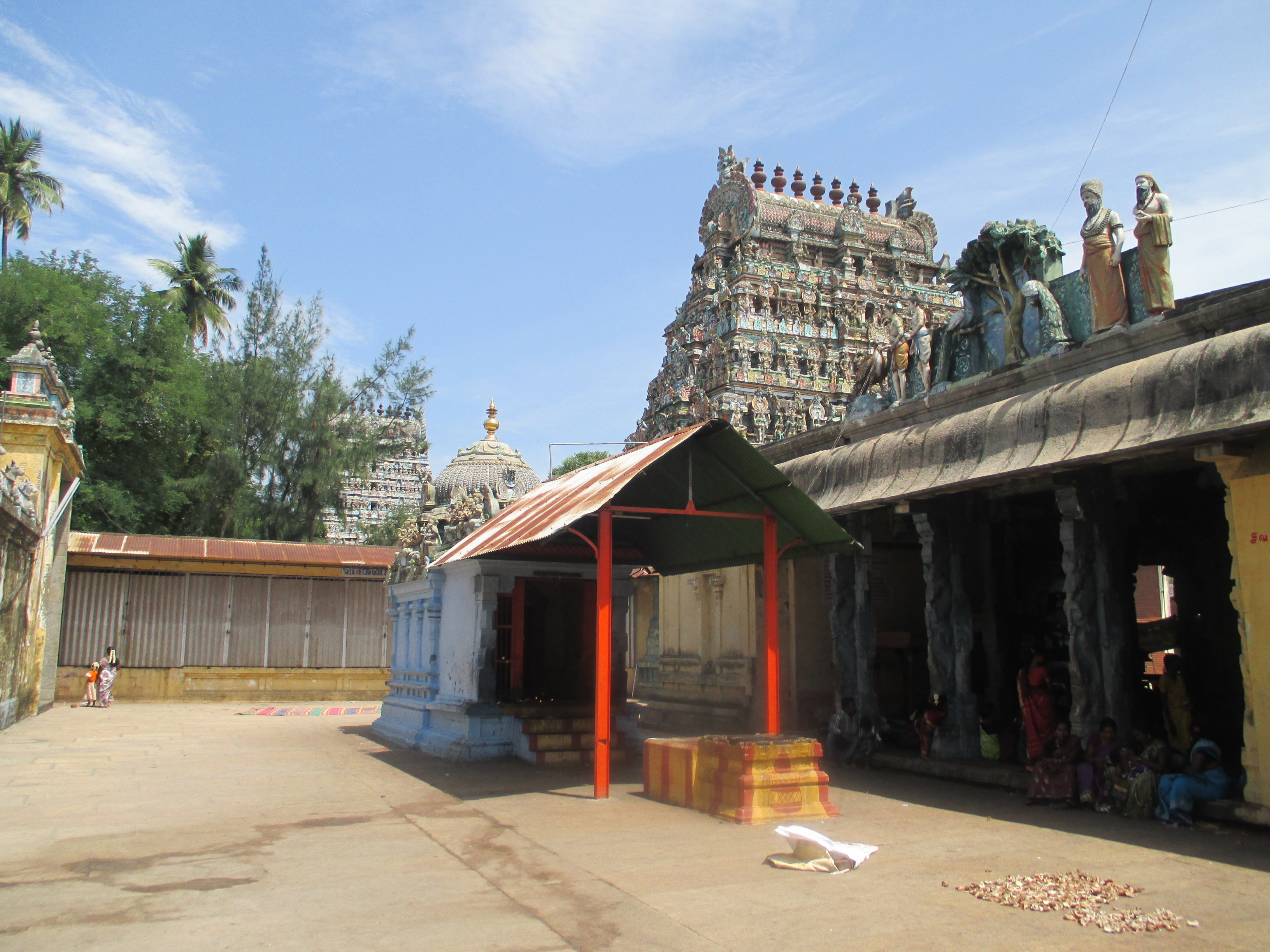 Vaitheeswarankovil1